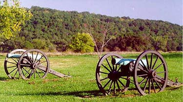 Cannons on the Wilson's Creek National Battlefield.